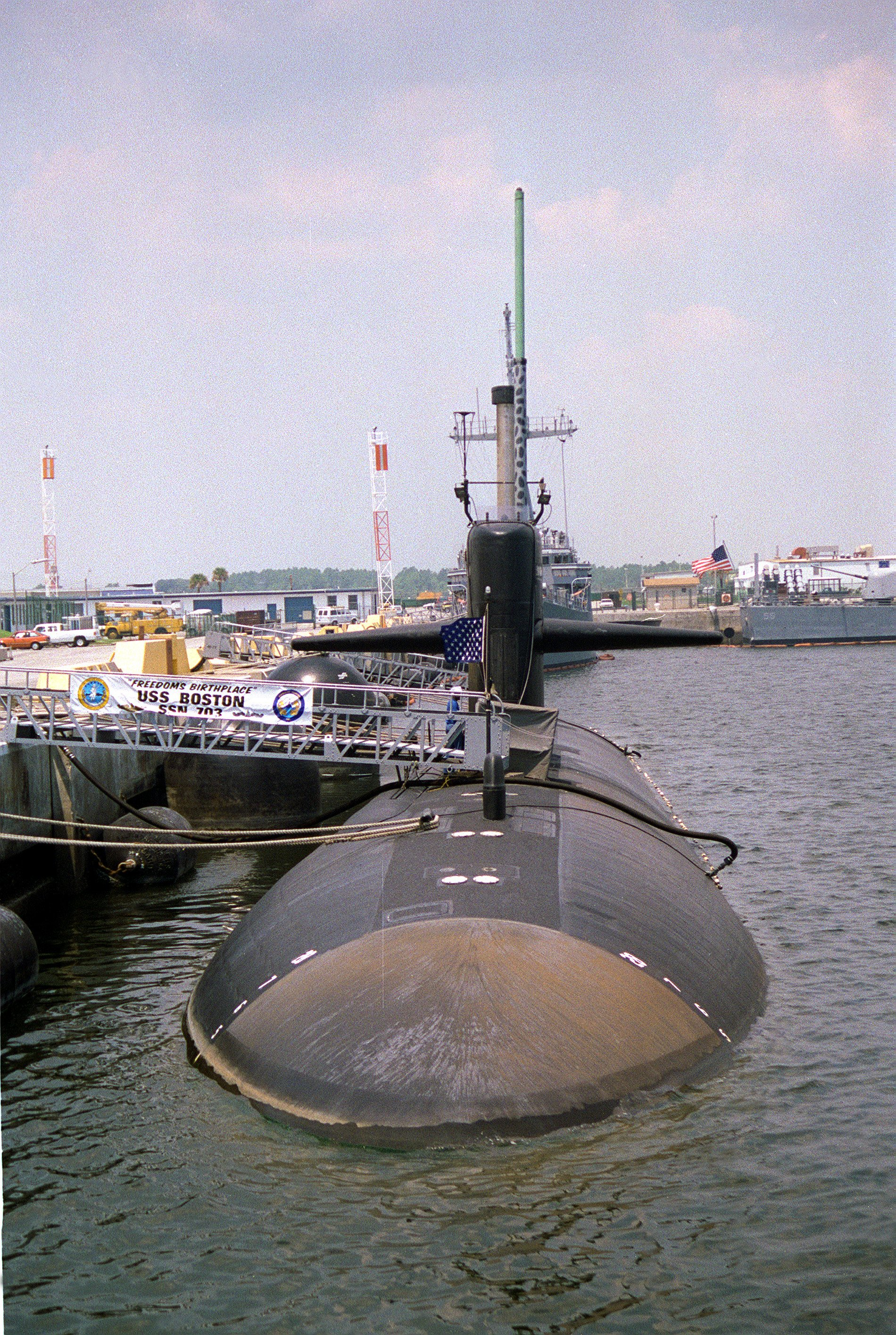 A bow view of the nuclear-powered attack submarine USS Boston (SSN-703) moored at a pier. Location: NAVAL STATION, MAYPORT, FLORIDA (FL) UNITED STATES OF AMERICA (USA)